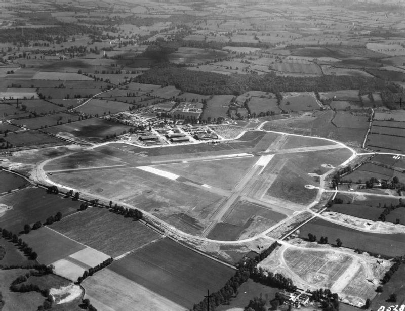 IWM caption : Oblique aerial view of RAF Wellesbourne Mountford, Warwickshire, from north-north-west. Vickers Wellingtons of No. 22 Operational Training Unit can be seen occupying some of the circular dispersals off the perimeter track. The building of the technical site (middle) is almost complete, with the exception of one of four Type T2 hangars, which is still under construction. The domestic site, comprising huts and single-storey buildings, lies behind. The B4086 leading to the village of Wellesbourne Mountford (off left) runs by the airfield perimeter in the foreground.